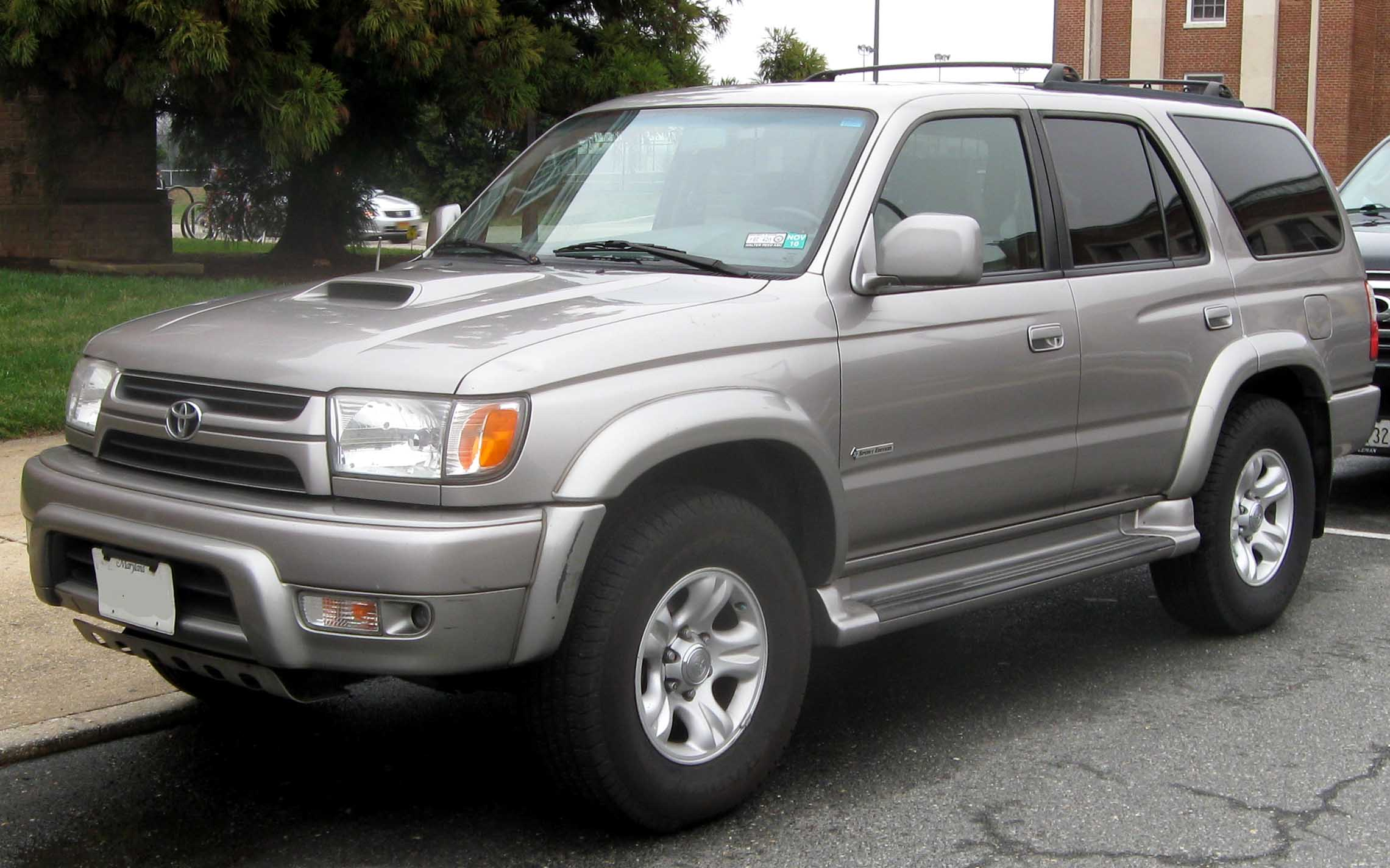 2001-2002 Toyota 4Runner photographed in College Park, Maryland, USA.